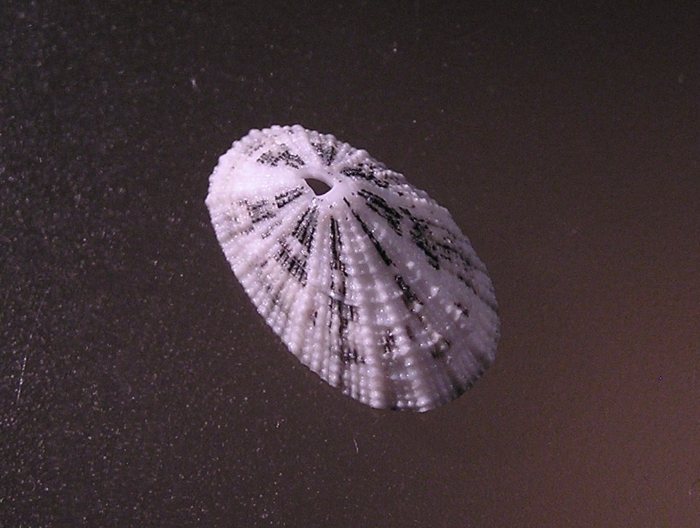 Diodora aguayoi (Farfante, 1943) a keyhole limpet from the family Fissurellidae